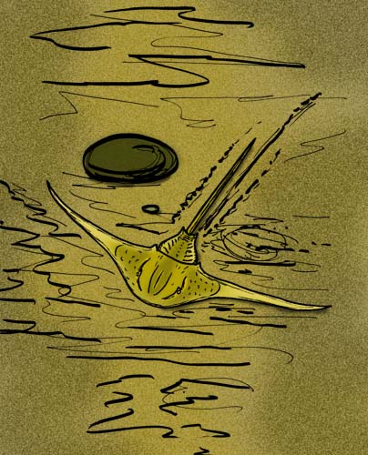 Reconstruction of the Triassic xiphosuran Austrolimulus fletcheri